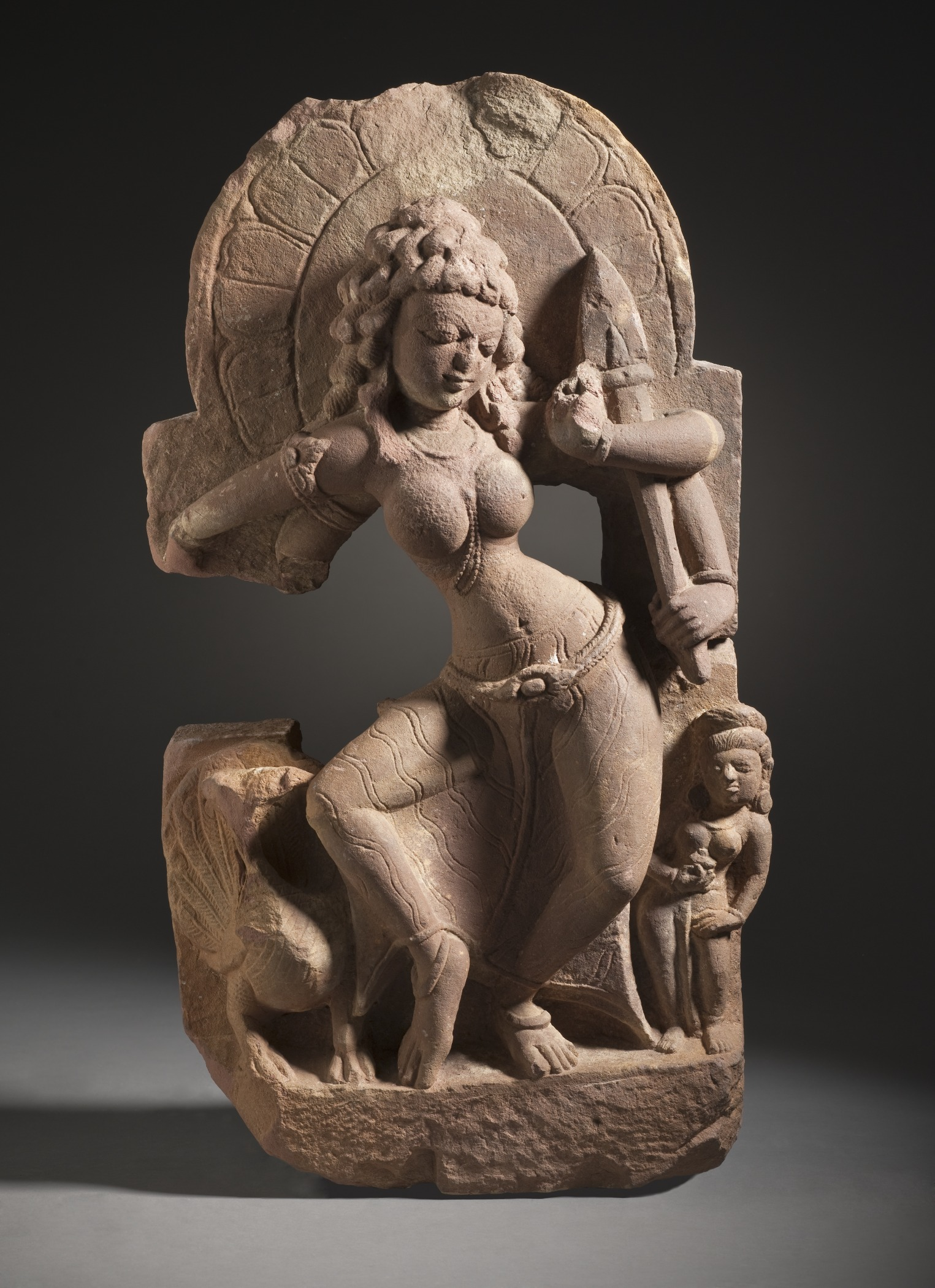 India, Madhya Pradesh or Rajasthan, 800-850 Sculpture Red sandstone 28 x 15 x 6 in. (71.12 x 38.1 x 15.24 cm) From the Nasli and Alice Heeramaneck Collection, Museum Associates Purchase (M.82.42.3) South and Southeast Asian Art